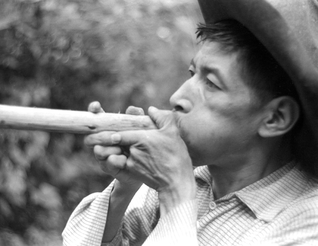 A Jacaltek Maya using a blowgun.